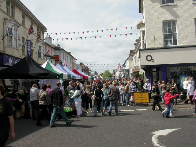 Christchurch Food & Wine Festival An annual festival centred around food & drink stalls in the High Street, and a marquee with cooking demonstrations in the nearby shopping centre; local restaurants have special offers, and there is a beer festival at 1030820.